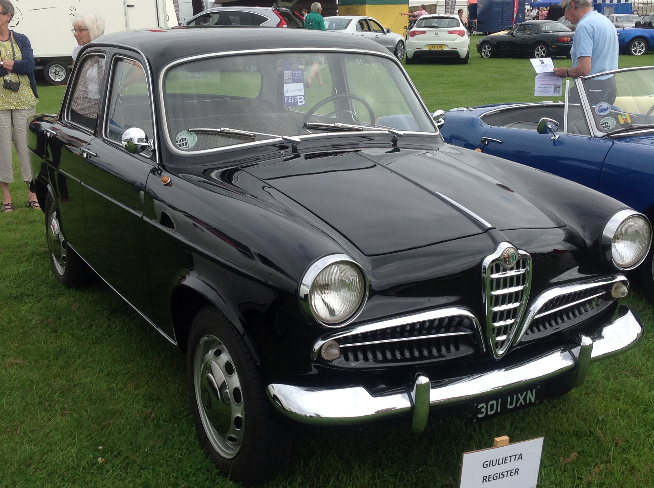 Classics at the Castle, Sherborne, Dorset